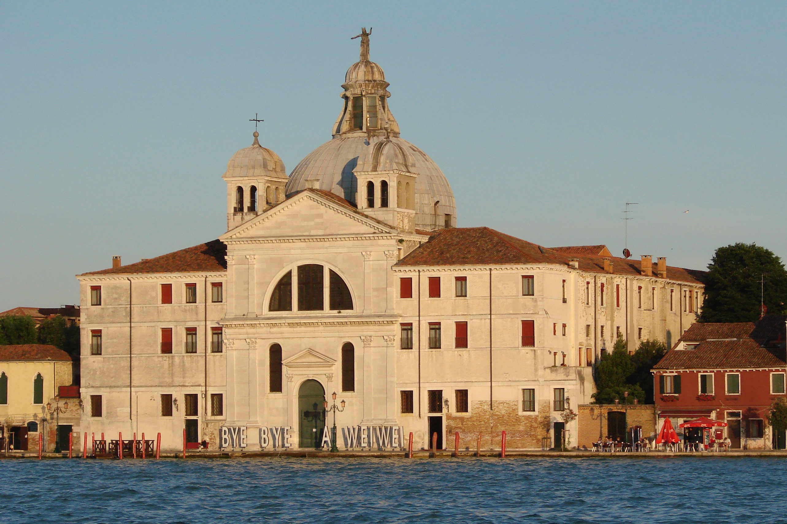 'Bye Bye Ai Weiwei' in front of Le Zitelle (officially Santa Maria della Presentazione), Giudecca, Venice